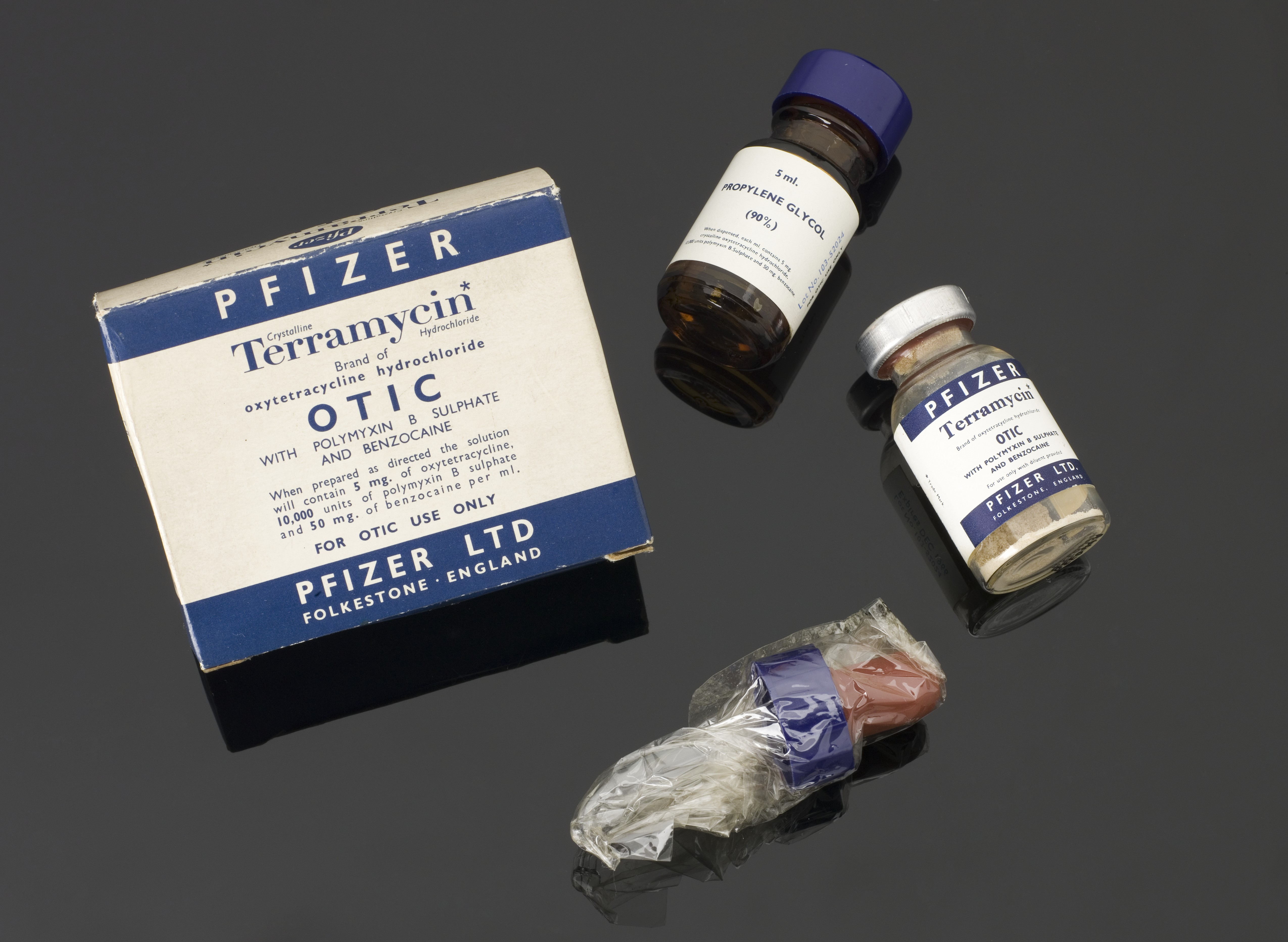 After the discovery of penicillin, other antibiotics were developed. These were generally based on chemicals produced by micro-organisms – like the mould which produced penicillin. In 1949, the drug company Pfizer developed ‘Terramycin’, a brand name for the multipurpose antibiotic whose later generic name was ‘Oxytetracycline’. maker: Pfizer Limited Place made: Folkestone, Kent, England, United Kingdom Wellcome Images Keywords: Oxytetracycline; Penicillins; antibiotic; penicillin; micro-organism